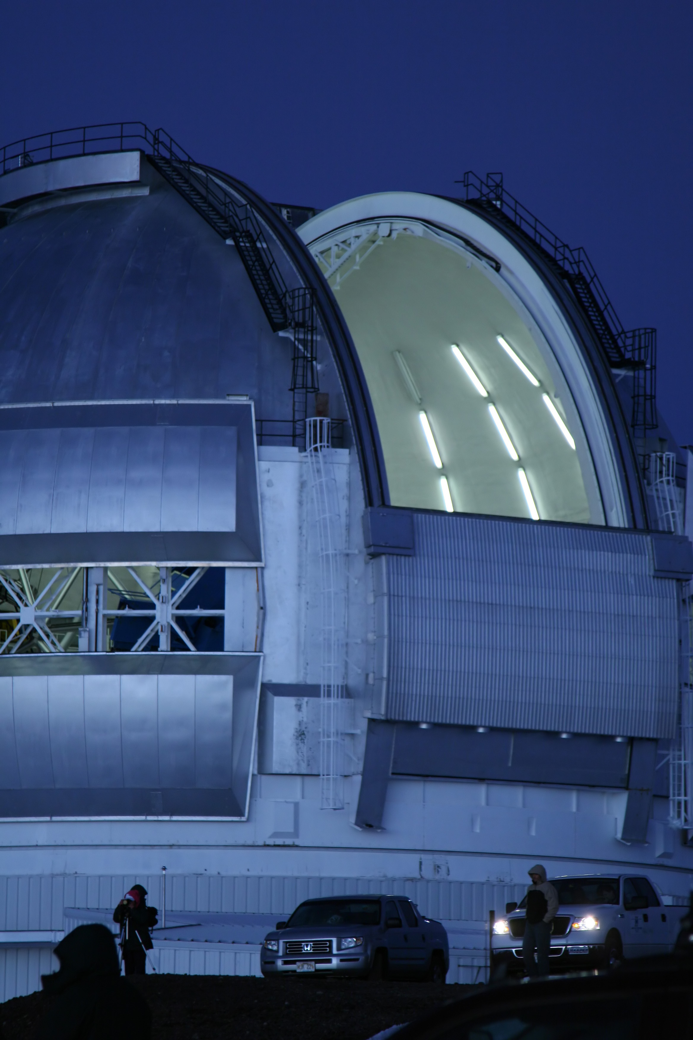 The Gemini North Observatory, with both the main dome and side temperature equalisers open.